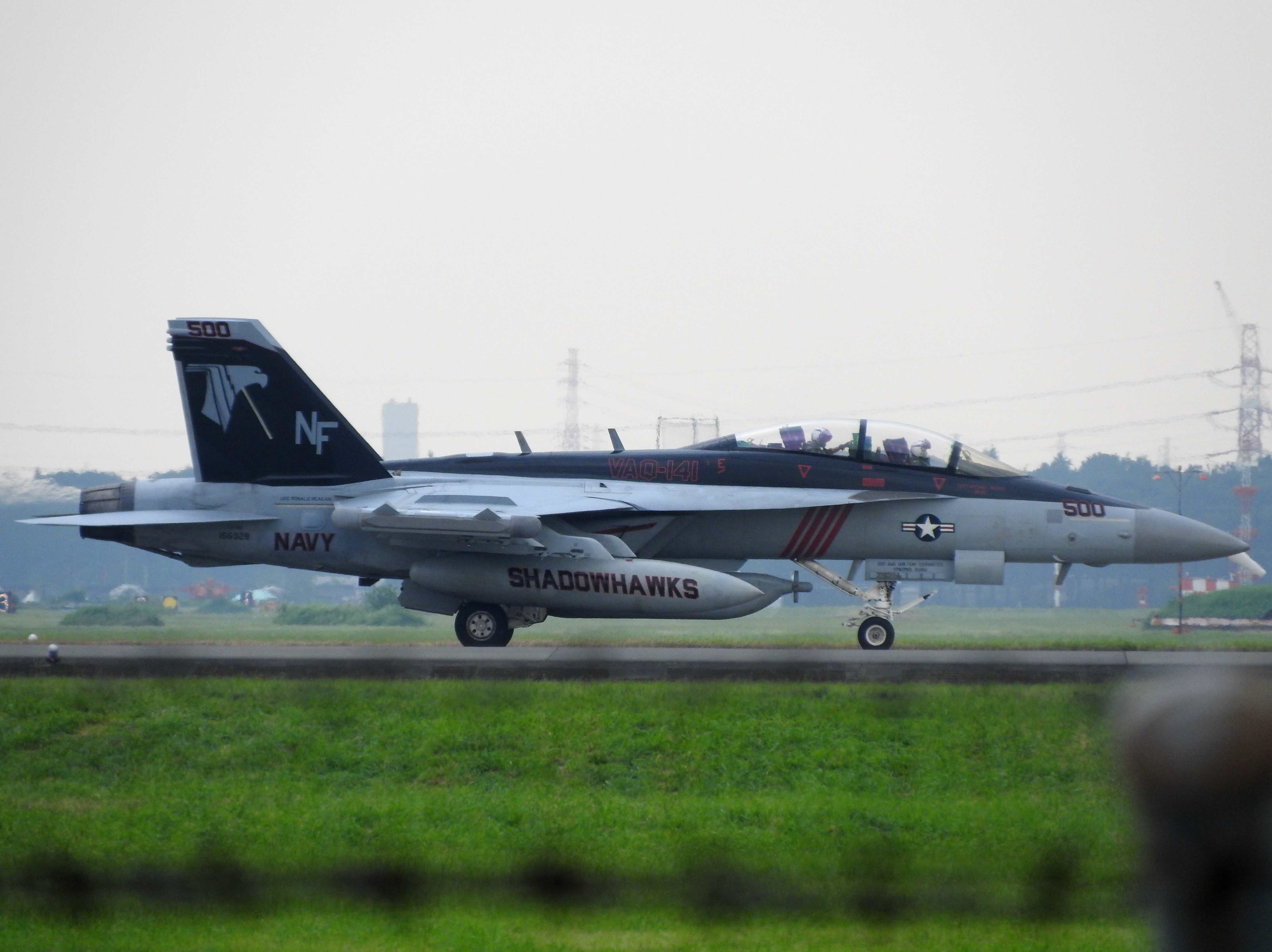 An EA-18G Growler of VAQ-141 of Carrier Air Wing Five assigned to the USS Ronald Reagan (CVN-76) taxies after landing at Atsugi Naval Air Facility, Kanagawa prefecture, Japan.